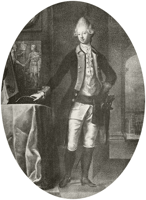 Dronning Caroline Mathilde i Dronningens Livregiments uniform. Queen Caroline Mathilde of Denmark in the military uniform of the Queens Guard Regiment. From a painting by Peder Als from 1770